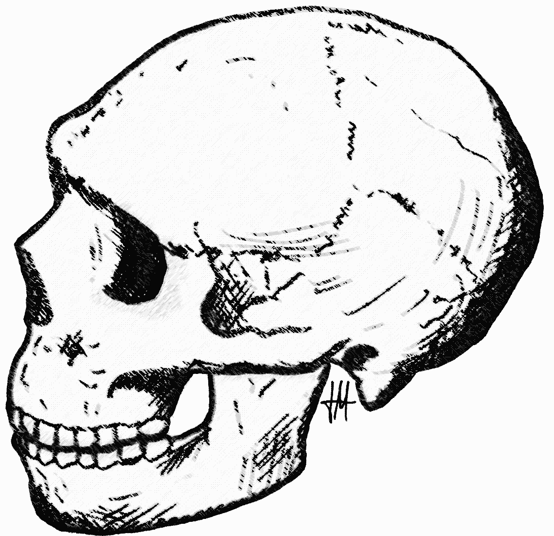 Neandertal skull so-called Amud-1, in the Carmel Range (Israel). cc. 50,000 BC